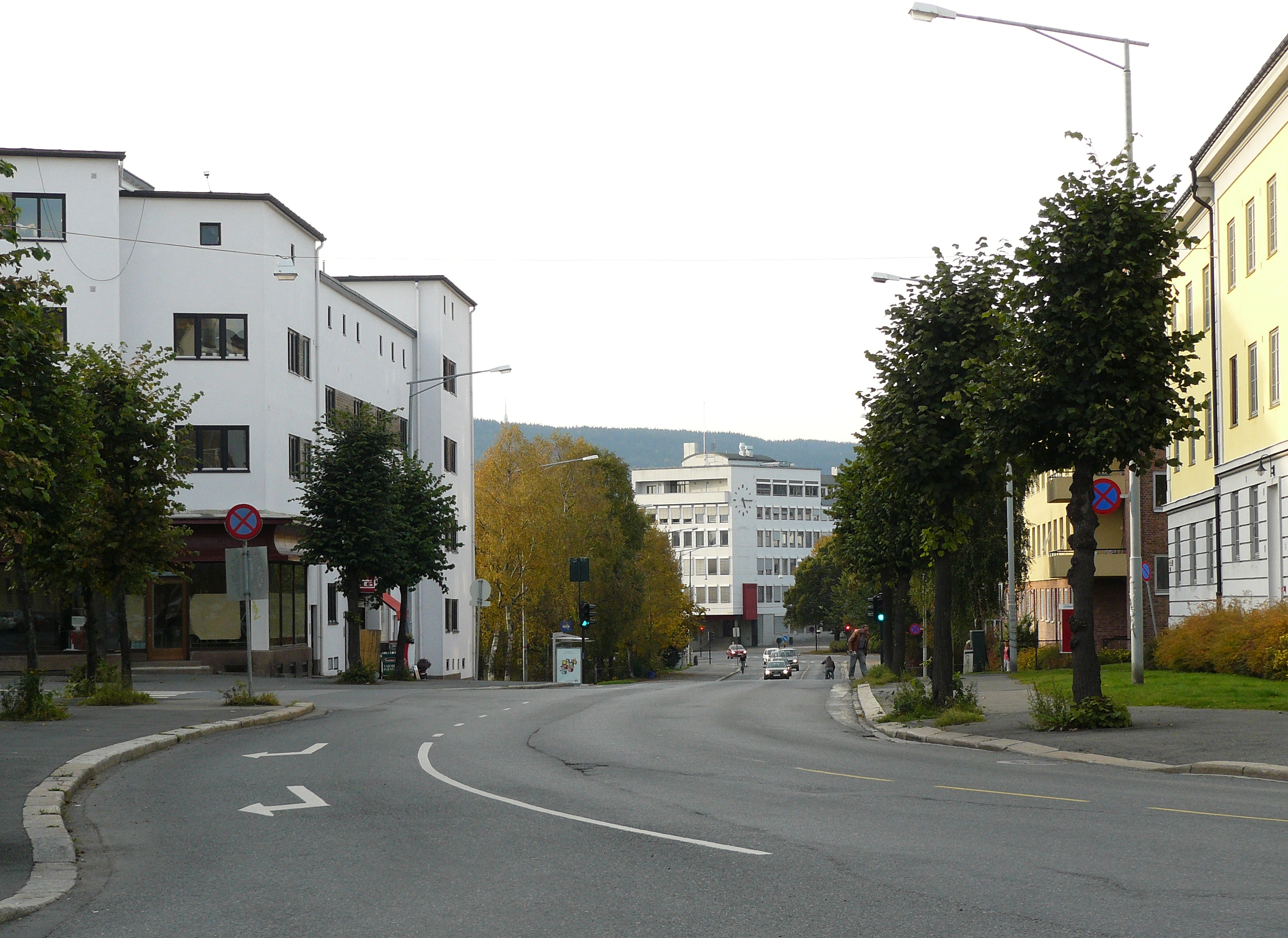 Hans Nielsen Hauges gate in Oslo, seen from Hans Nielsen Hauges plass